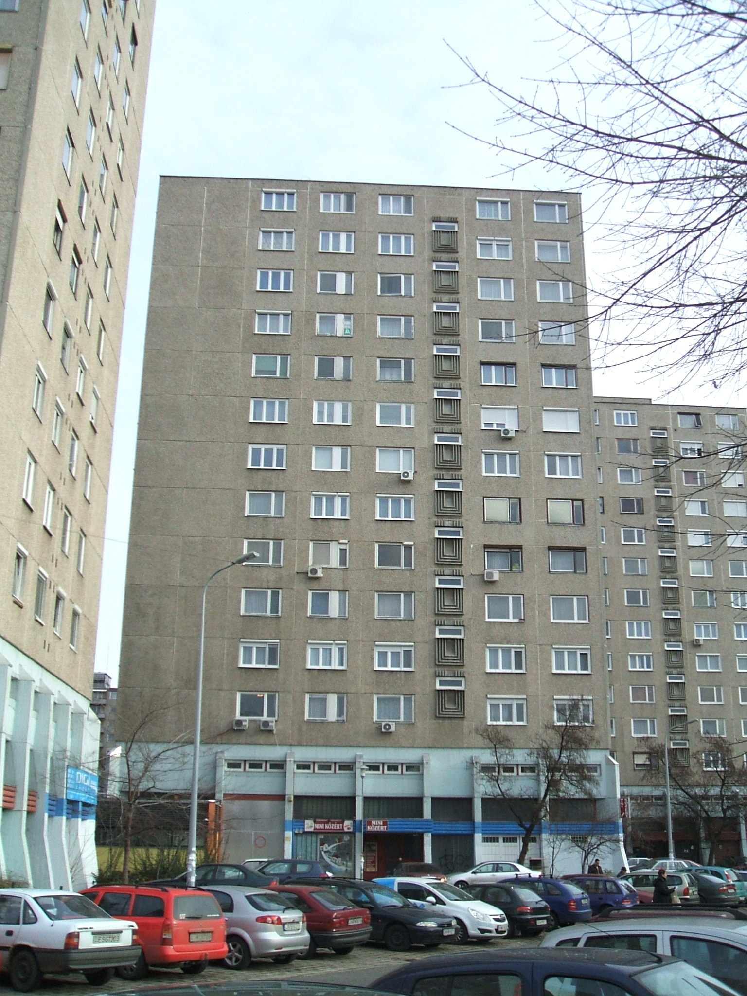 Újpalota housing estate (population: c.40,000), Budapest, Hungary